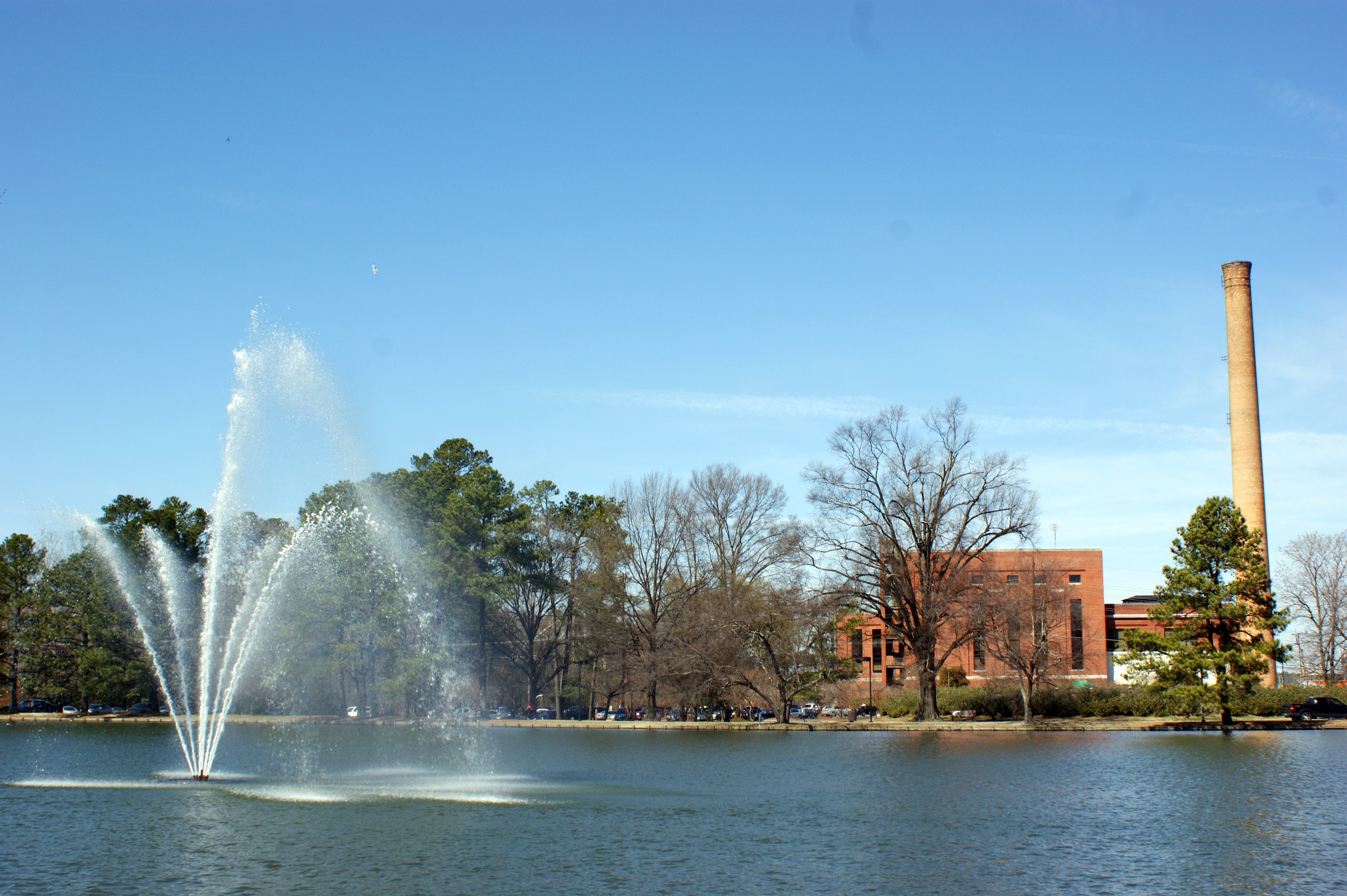 Rocky Mount, North Carolina city lake and Power Plant in background.